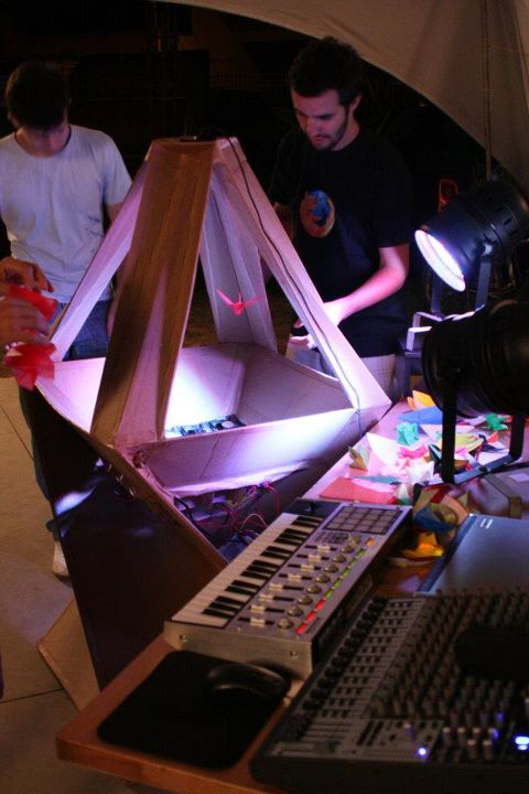 Interactive Artistic Instrument that generates sounds through computer vision algorithms processing a video stream of flying origamis Lab Macambira AirHackTable